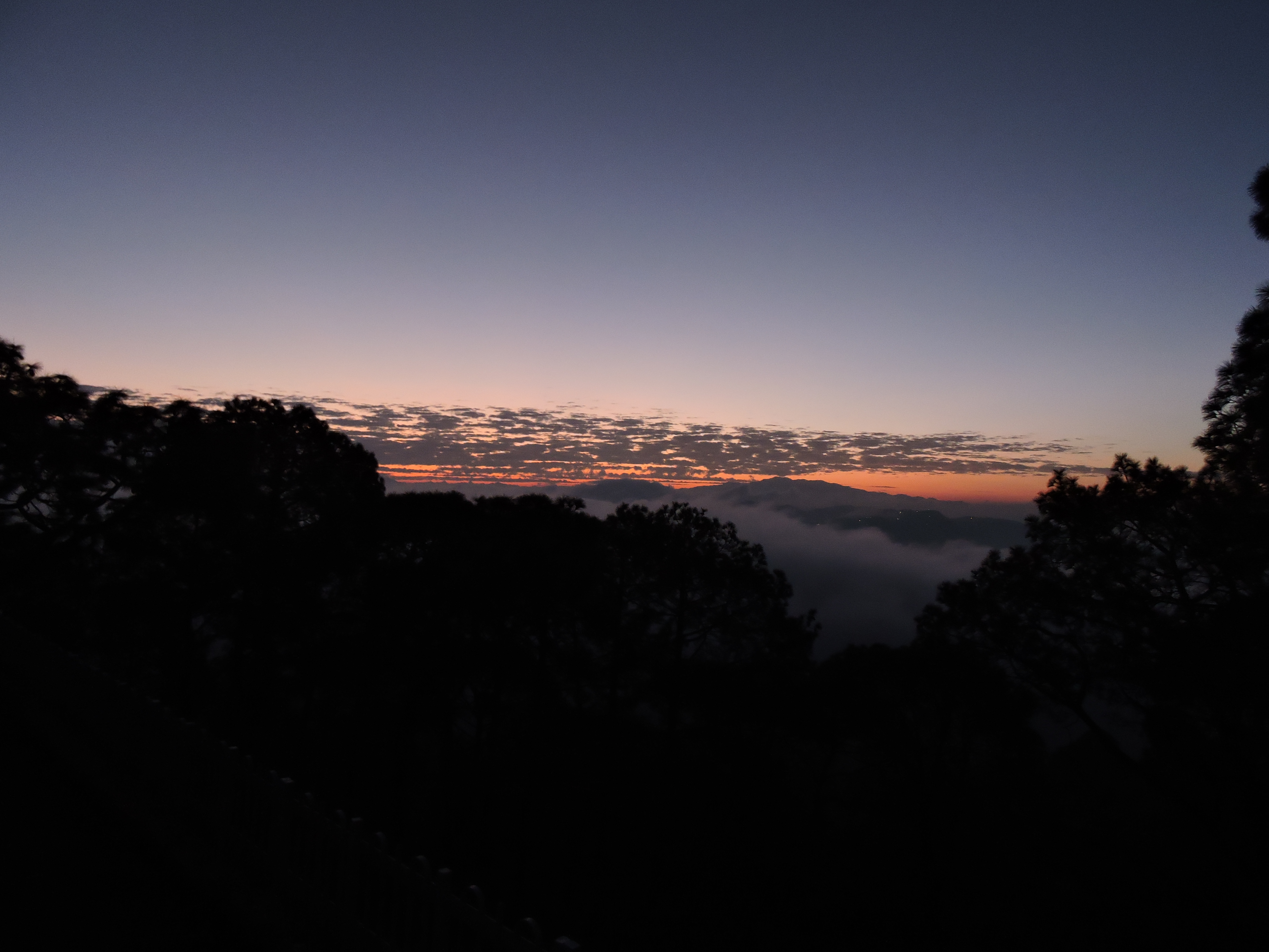 A view of early morning of Kasauli, Himachal Prades,India